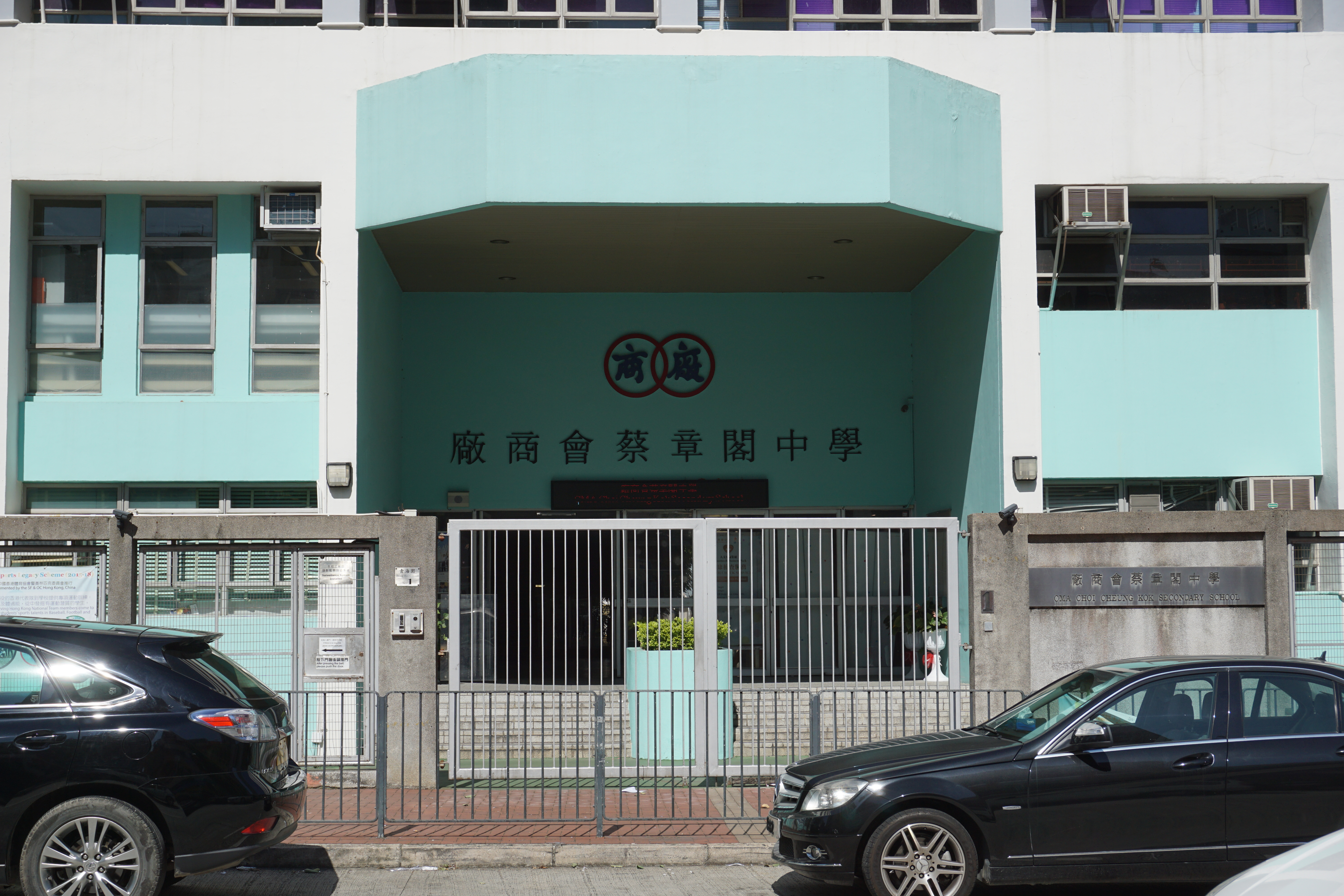 CMA Choi Cheung Kok Secondary School in Tuen Mun, Hong Kong.